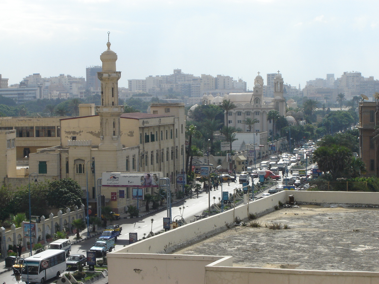 A masqid and a nearby church in Shatby, Alexandria, Egypt.